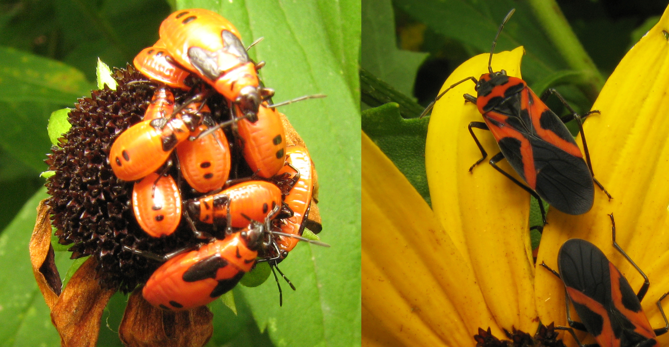 Nymph and adult false milkweed bugs Lygaeus turcicus. Pennypack Restoration Trust, Montgomery County, Pennsylvania, USA.